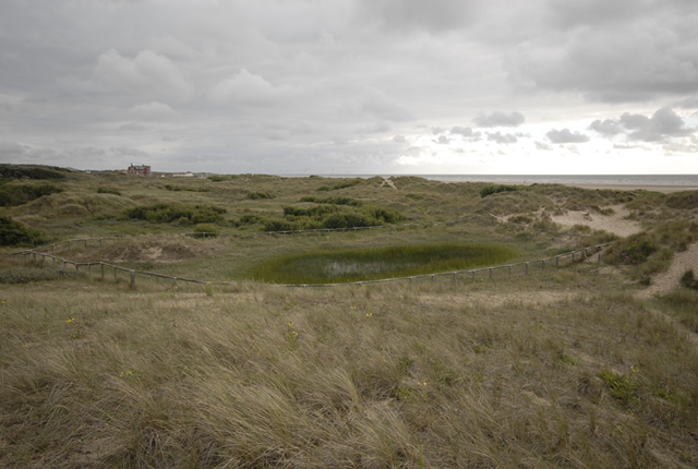 Natterjack toad breeding pool Protected dune slack for Natterjack toads at Birkdale.